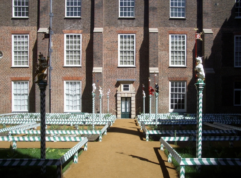 Hampton Court Palace - Recreation of a Tudor Garden